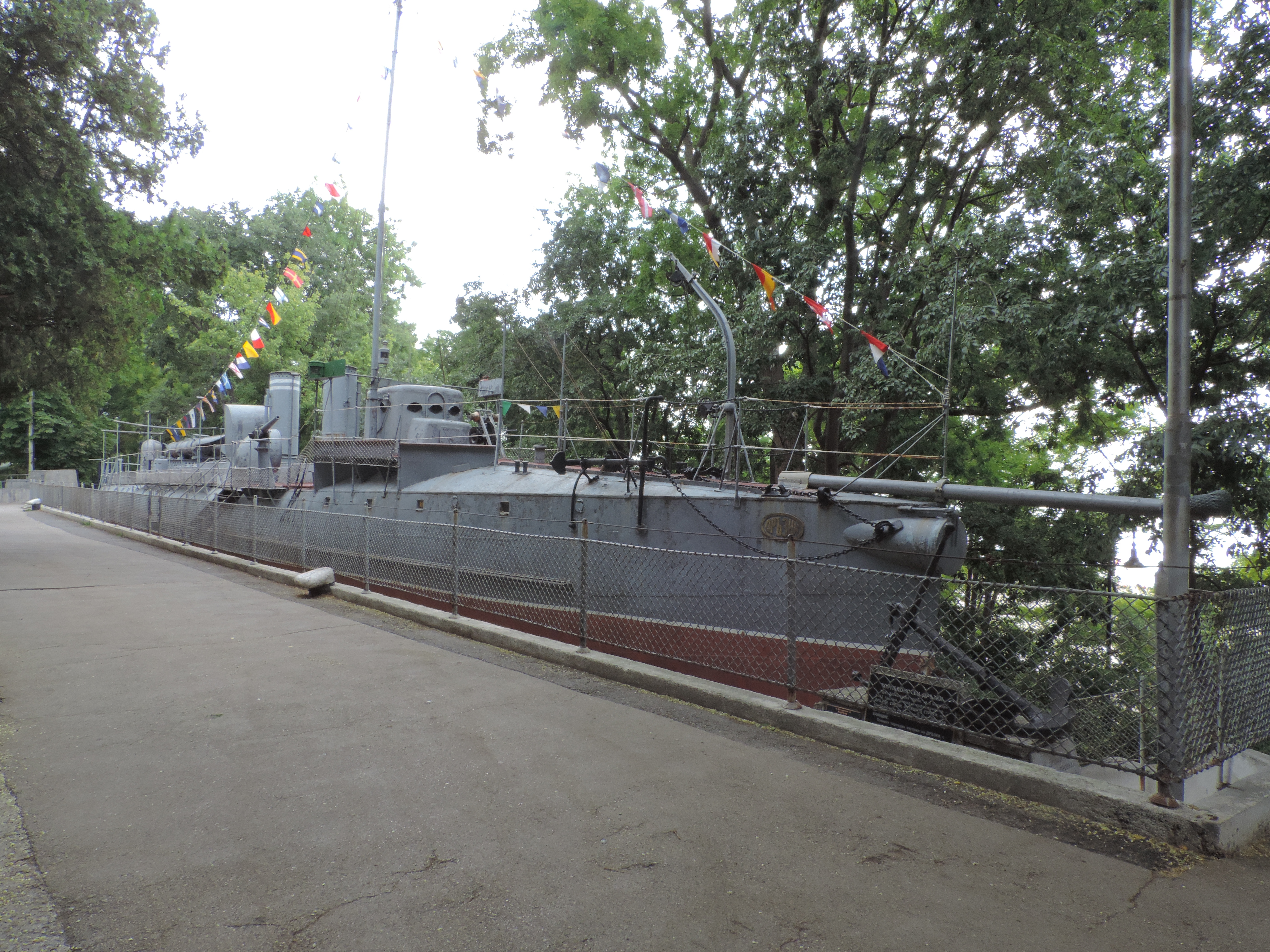 Naval Museum in Varna, Bulgaria